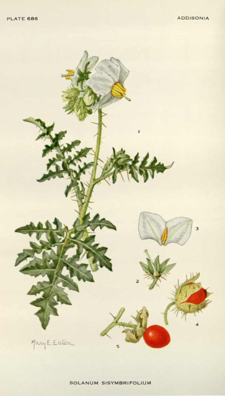 Addisonia, vol. 21: t. 686 (1940)